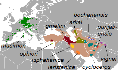 Historical range of the wild sheep (Ovis orientalis) and present range of the subspecies, including urials and mouflons